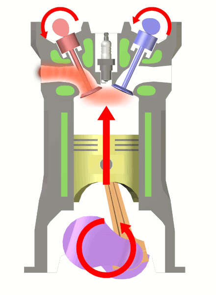 Illustration of the Four-stroke cycle